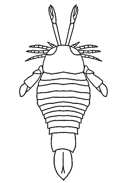 Reconstruction of Ciurcopterus ventricosus based on figures in